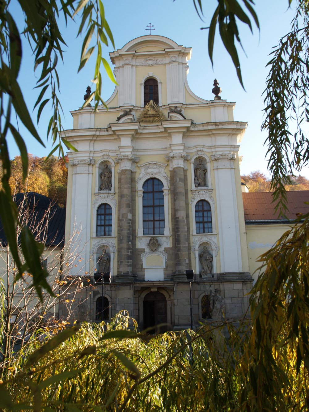 Most Holy Trinity Church in Fulnek, Czechia.